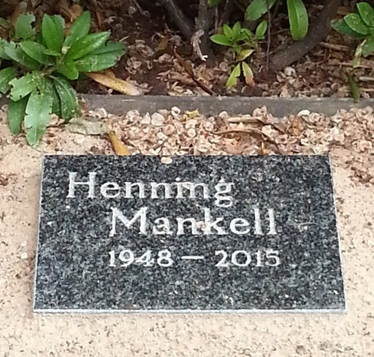 Gravestone of the Swedish author Henning Mankell at the Old cemetary of Örgryte in Göteborg